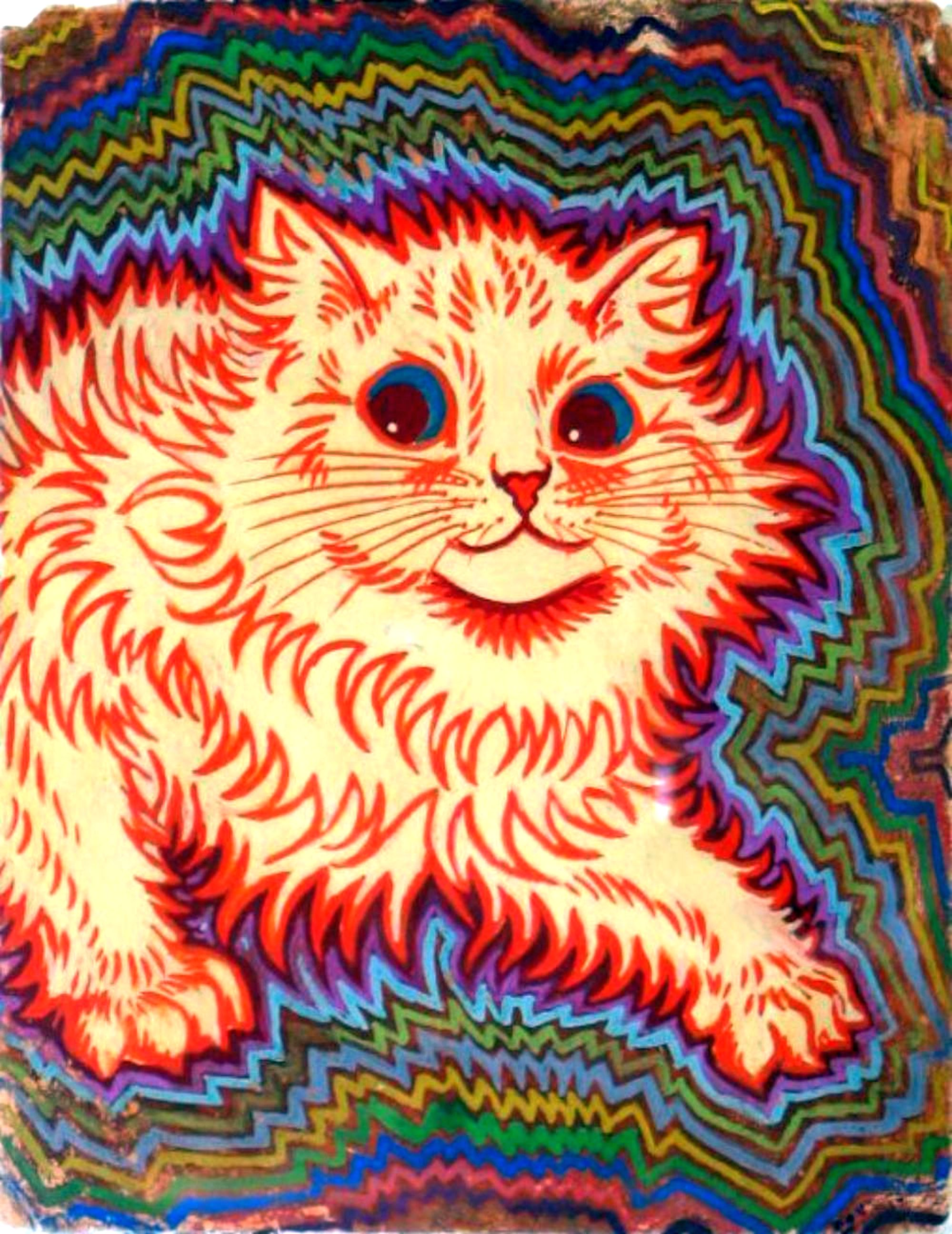 Psychotic cat by Louis Wain.